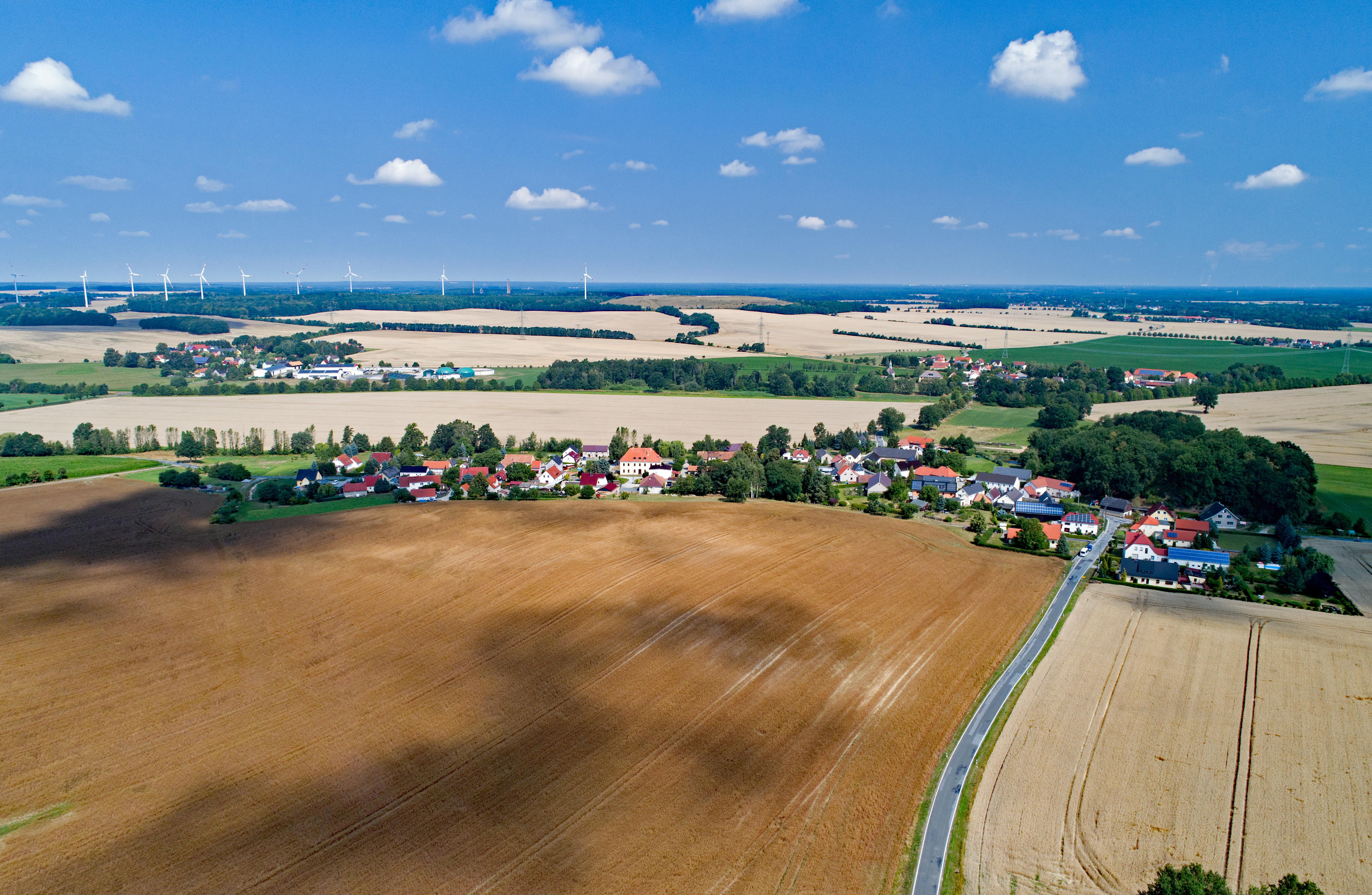 Loga (Neschwitz, Saxony, Germany) Hornjoserbsce: Powětrowy wobraz Łahowa